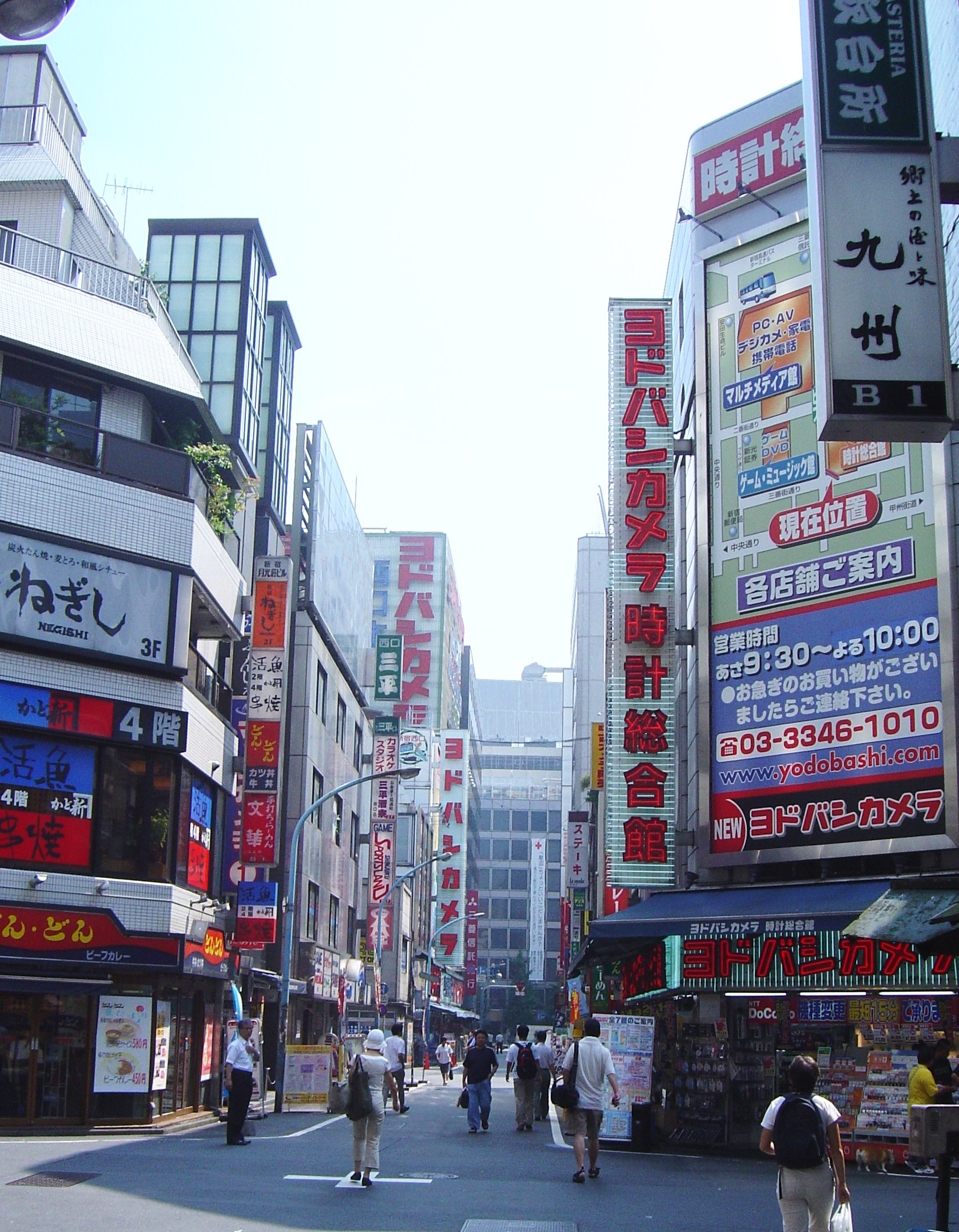 a street of Shinjuku, Tokyo, Japan